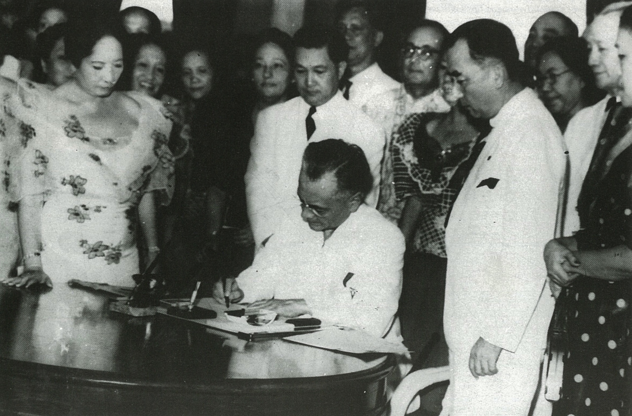 Philippine President Manuel L. Quezon (center) signs the Women’s Suffrage Bill following the 1937 plebiscite, as his wife Aurora Aragon Quezon (left) looks on. Also witnessing this historic moment were Speaker Jose Yulo, Executive Secretary Jorge B. Vargas and Vice President Sergio Osmeña.